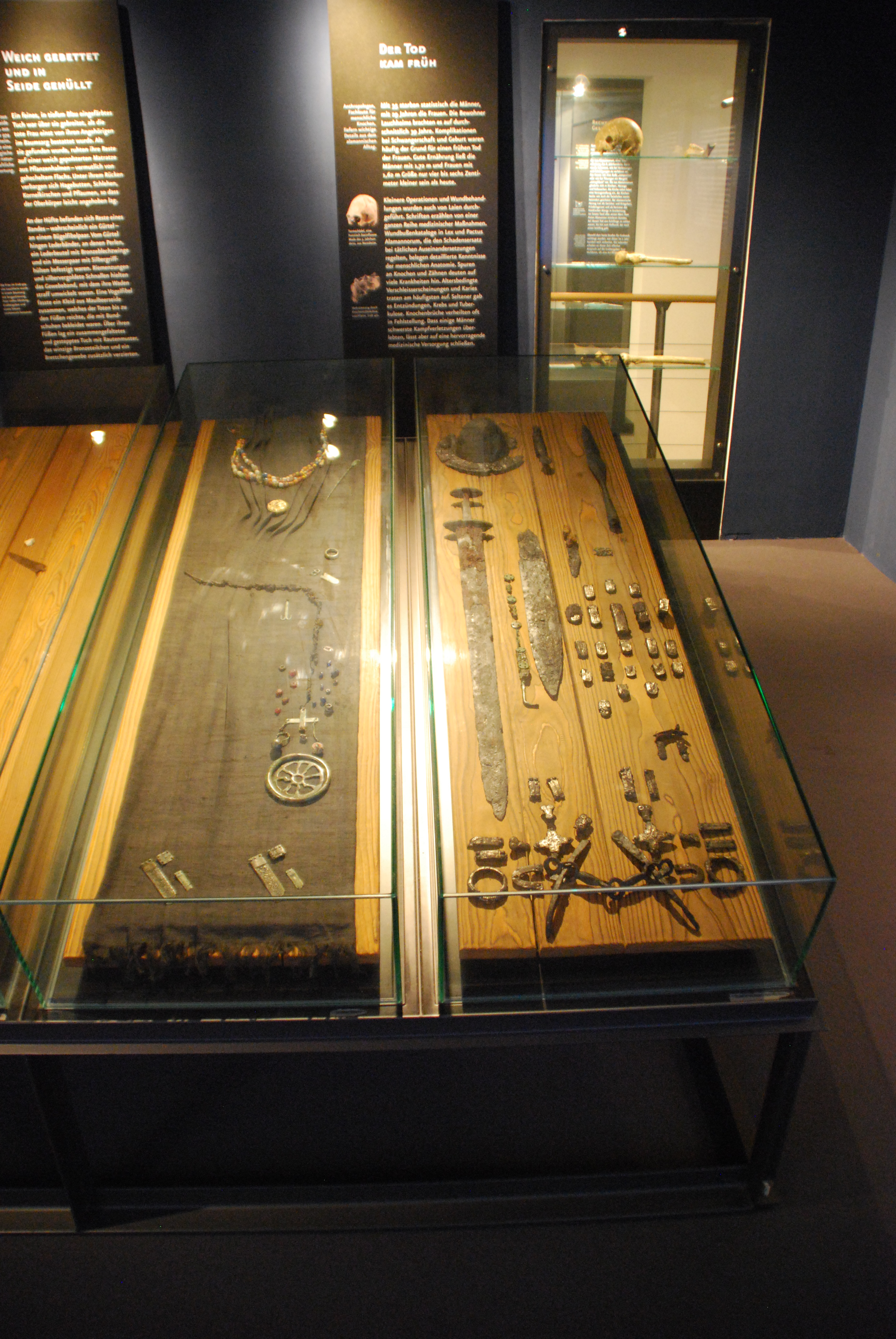 Uploaded Raw material, everybody can work on Names, Categories, Descriptions and so on.. - pictures of descriptions should be deleted after usage.